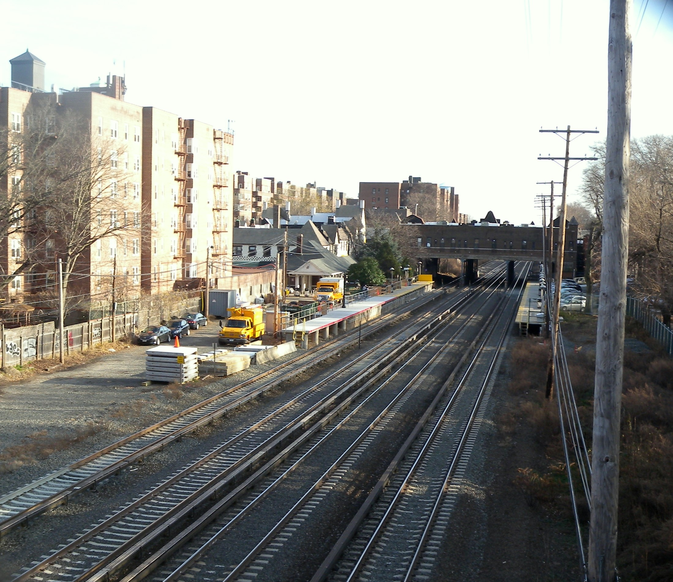 Looking southeast from 82nd Street overpass at Kew Gardens station on a partly sunny afternoon.